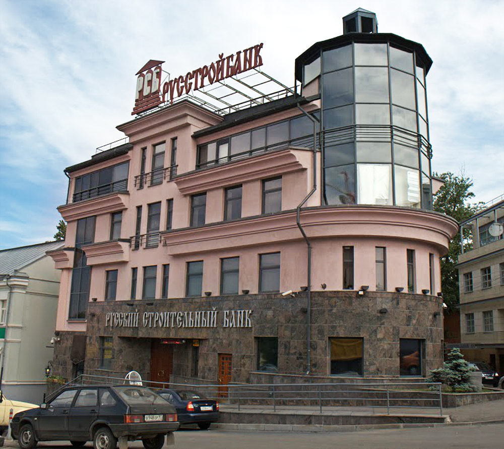 Russtroybank Office